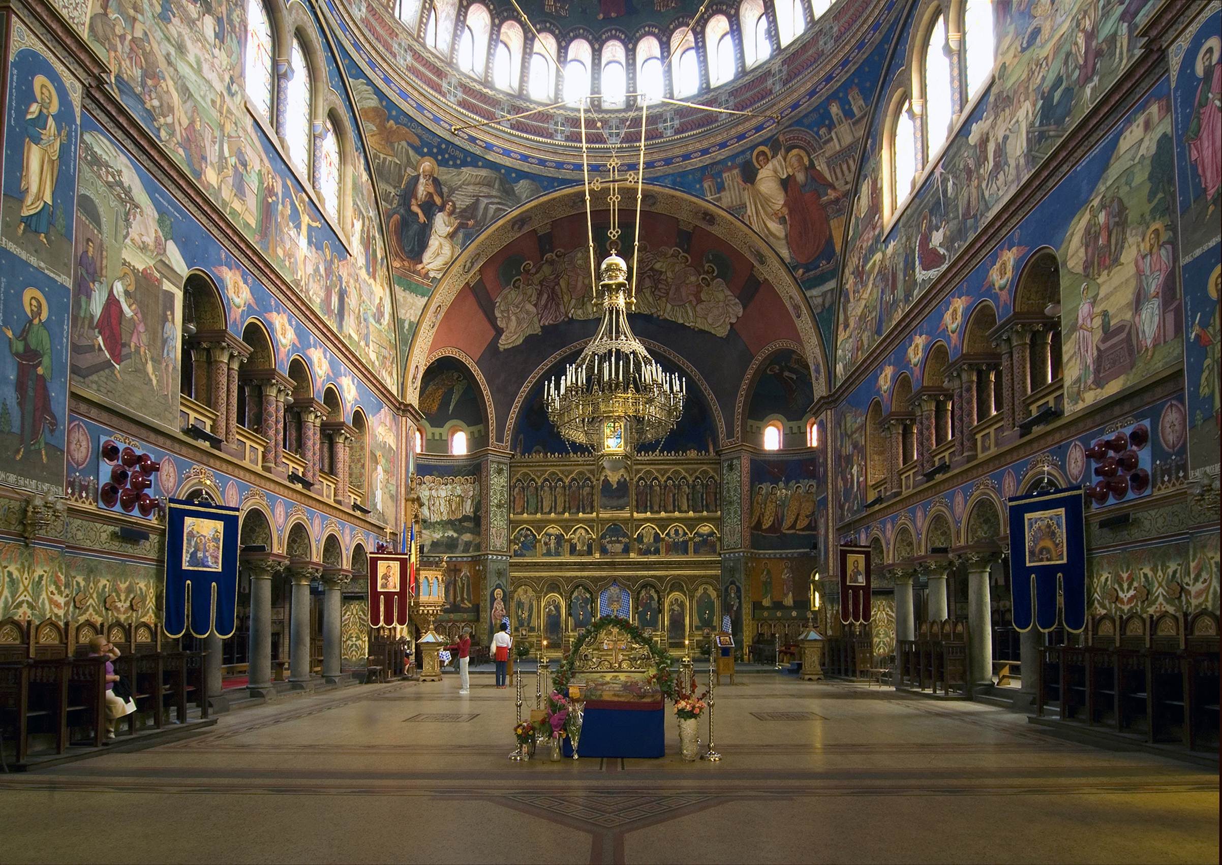 Interior (nave and iconostasis) of the Orthodox Cathedral in Sibiu, Romania